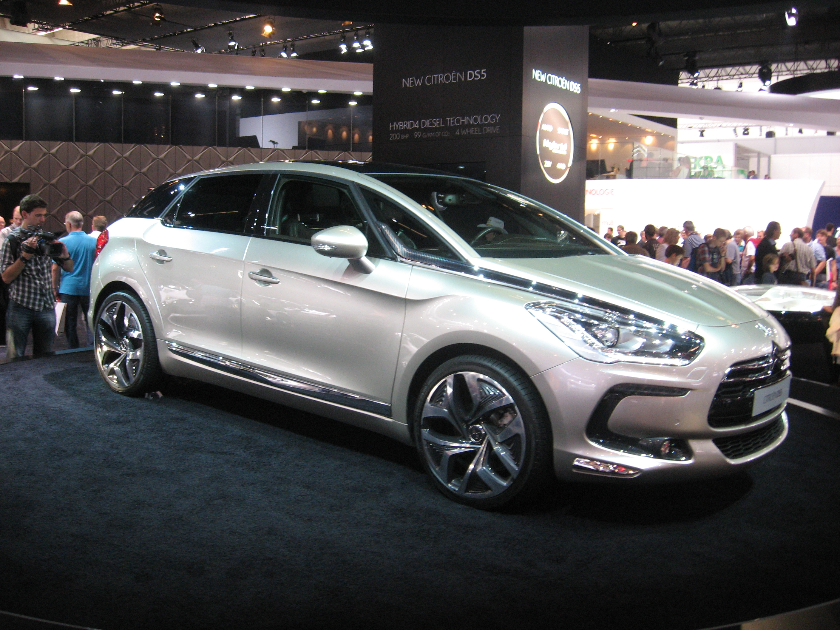 Subject: Citroën DS5 Date:September 17th, 2011 Event: IAA 2011 Place/Country: Frankfurt am Main, Germany I release all rights in the public domain.